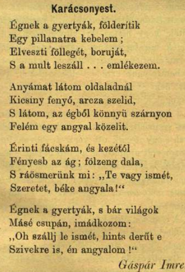 Poem of Gáspár Imre